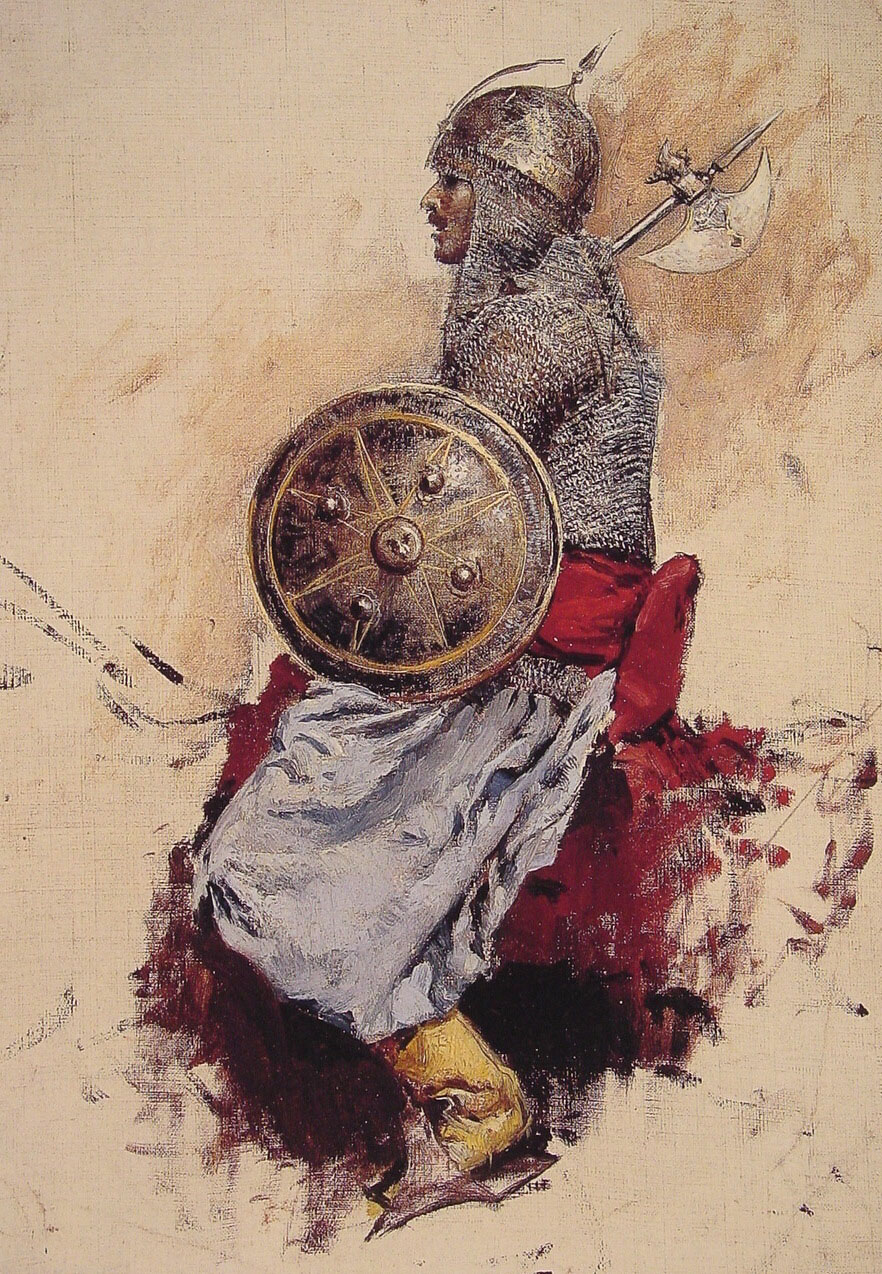 This outstanding figure study of an armored Moghul horseman relates to a series of paintings of historical subjects, evocative of the 17th Century imperial Moghul court, which Edwin Lord Weeks executed between the mid-1880s and the mid-1890s. The present work was directly incorporated into a painting in which this figure appears as a mounted guard escorting a royal prince ascending the steps of a palace. Indeed, this work is more than an 'oil sketch' in the conventional sense. The figure, so precisely detailed, is depicted astride a horse and rendered faithfully in handsome profile with his golden helmet, the chain mail vest, the magnificent damascened steel shield, down to the fancy boots and stirrups. Yet the work retains Weeks' characteristic balance between academic precision and painterly impression, as the entire figure is played against an abstract, flickering surface of brushwork. A few deft lines represent the profile of the horse's neck and back, while the lower area of russet, suggesting the flank of the horse, and the upper area of ochre, suggesting the plaster walls of the palace beyond, are simply treated as 'memories' of color and form for the artist's later reference in a full-scale painting. The present work was executed in situ in India, and it is likely that the accoutrements it depicts were borrowed from the museums or archives of one of Weeks' Indian hosts and modeled for him on a contemporary figure.""